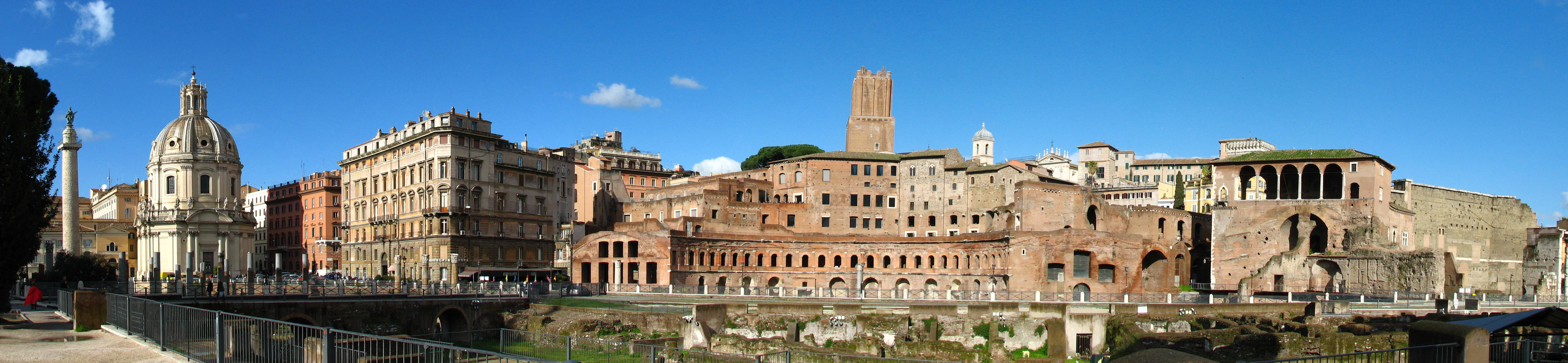 A panoramic view of the Trajan's Forum in Rome, on the far left is the Trajan's Column.